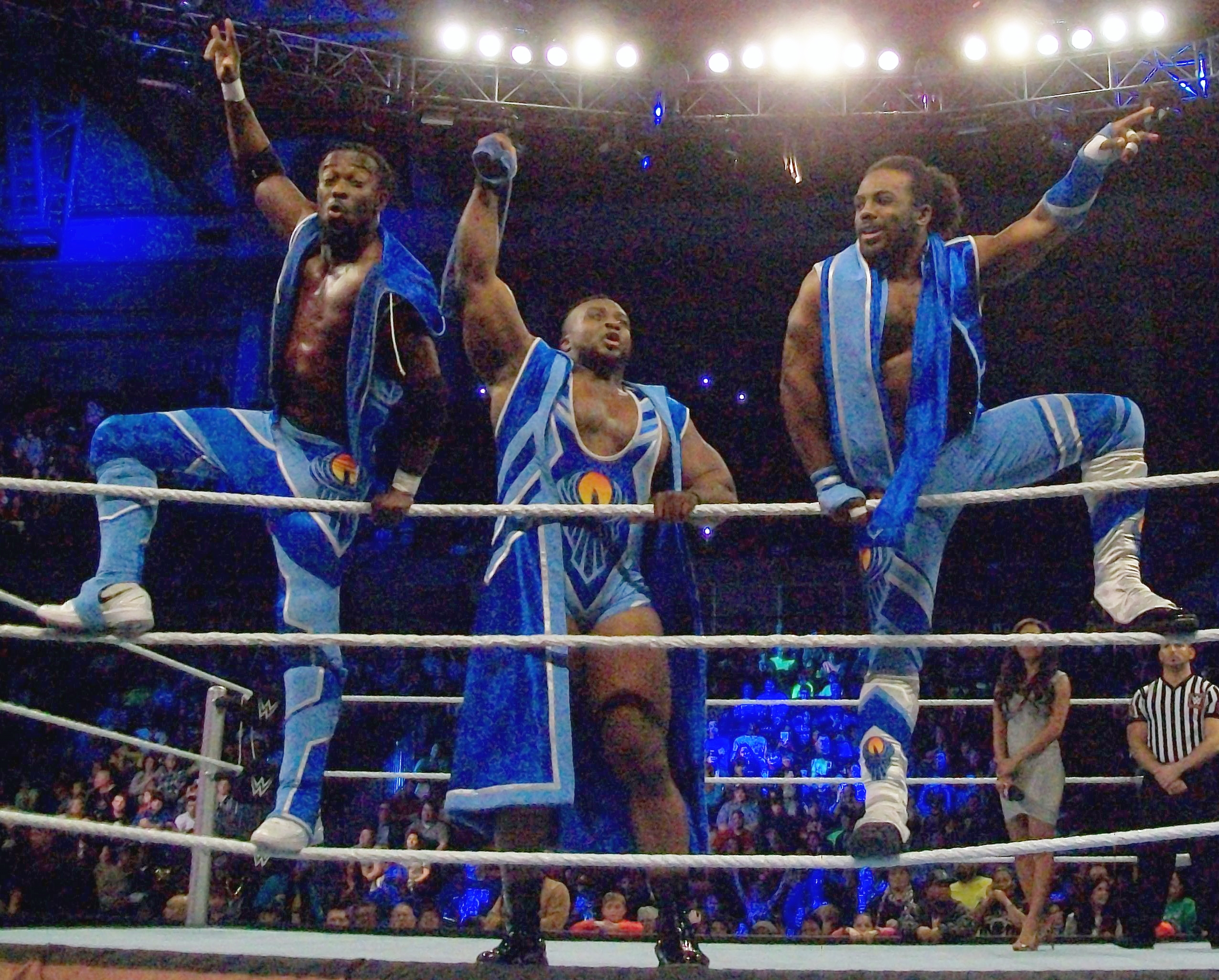 The New Day (from left to right: Kofi Kingston, Big E Langston, and Xavier Woods) at a WWE SmackDown/Main Event television taping in January 2015. Cropped from original.